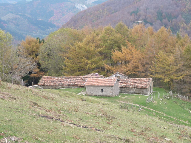 Sacti Spiritus chapel, near Lizarrate